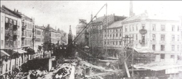 Valkyrie plass (station) under construction in the Common Tunnel in Oslo, Norway.